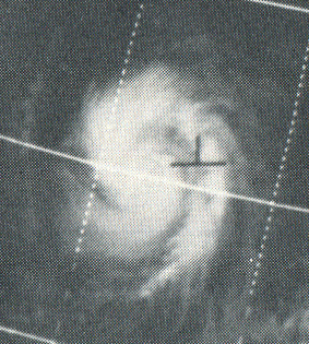 This ESSA 9 weather satellite picture of Typhoon Virginia was taken on September 5, 1971 at 0515 UTC